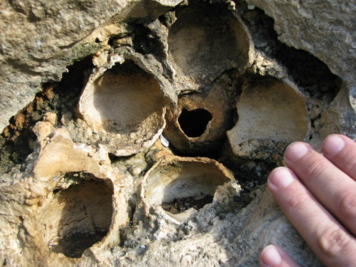 turtle egg fossils embedded in the travertine of Alcamo (Sicily) around 500,000 years ago.